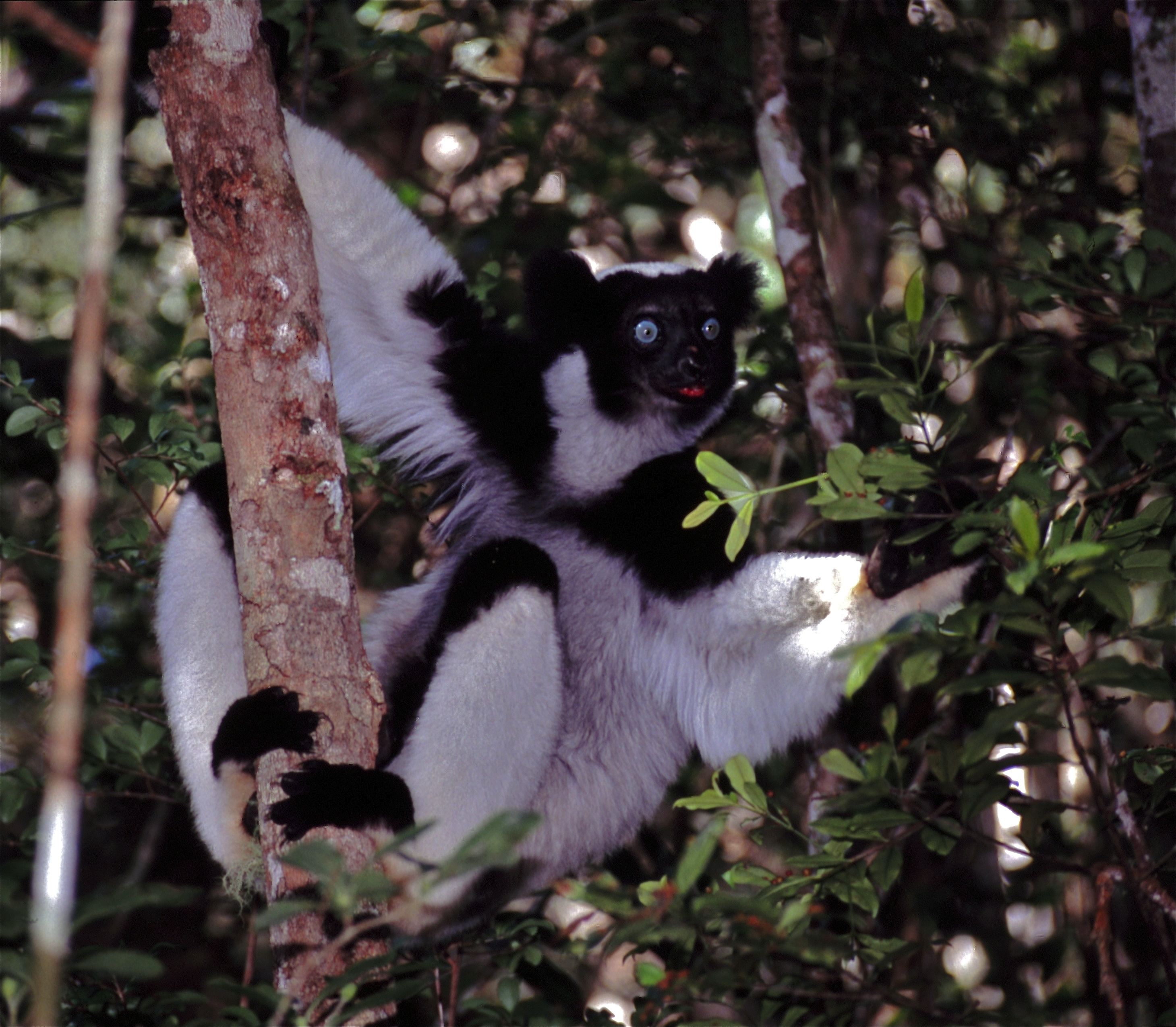 Andasibe-Mantadia NP, MADAGASCAR Scanned Slide from 2004